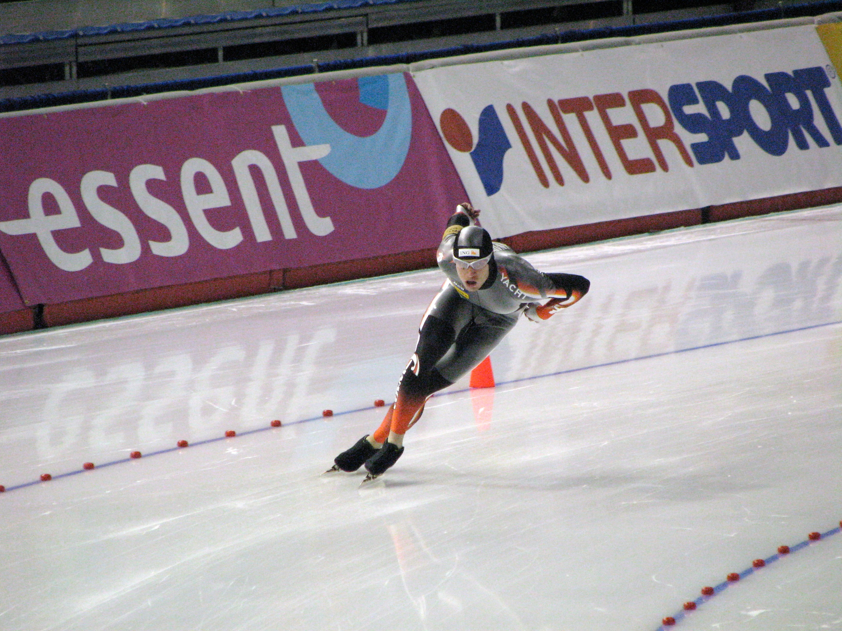 Jeremy Lee Wotherspoon racing 2000m in Calgary, Alberta at the Olympic Oval during the Essent ISU World cup on November 18, 2007.